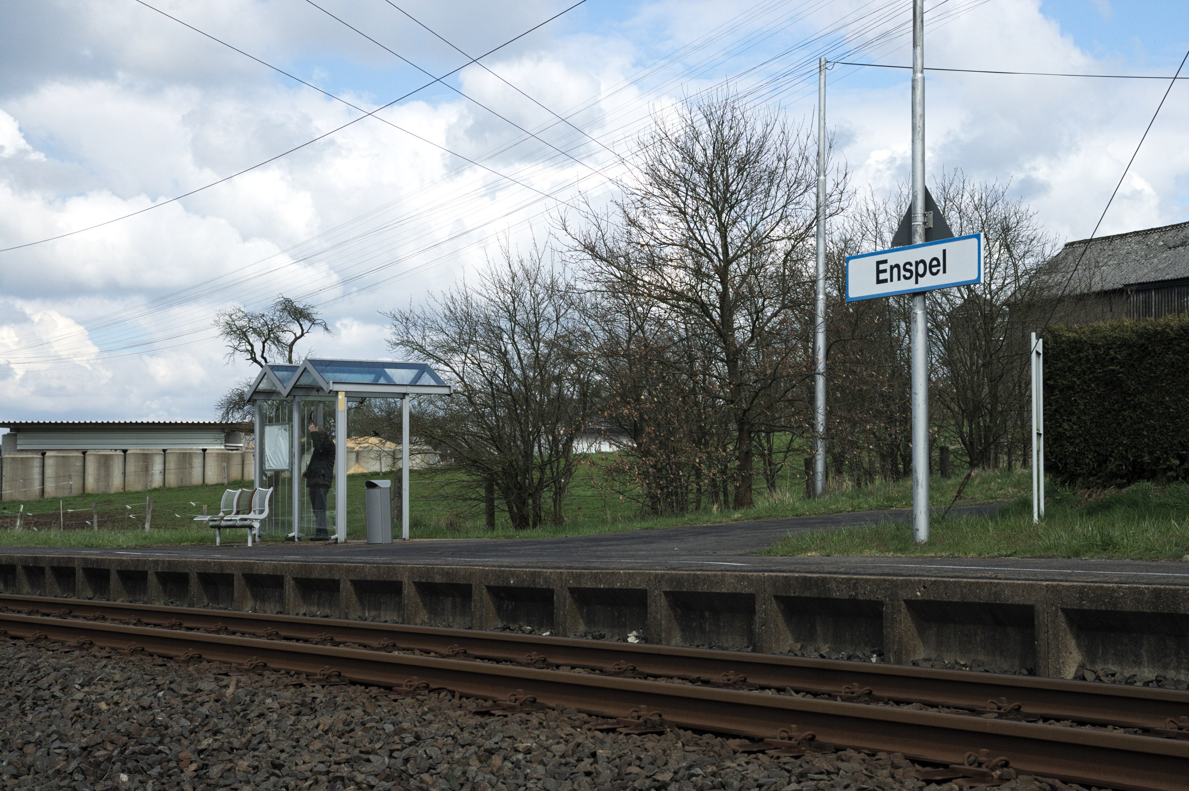 Railway stop Enspel at the Oberwesterwaldbahn (Altenkirchen-Limburg, Germany). Location: Western edge of Enspel village, next to road K61. Only trains to the north (Altenkirchen/Au) stop here.